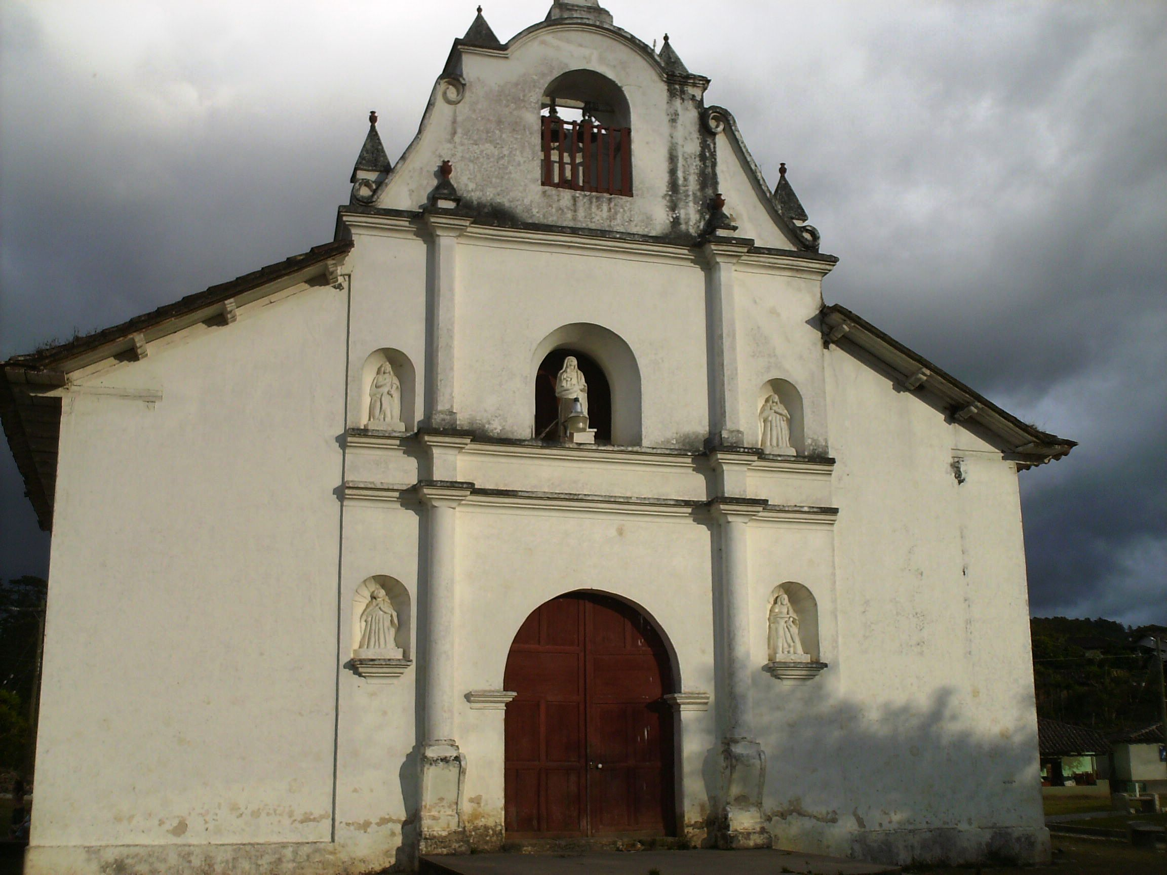 San Marcos de Caiquín, municipality in the Honduran department of Lempira.